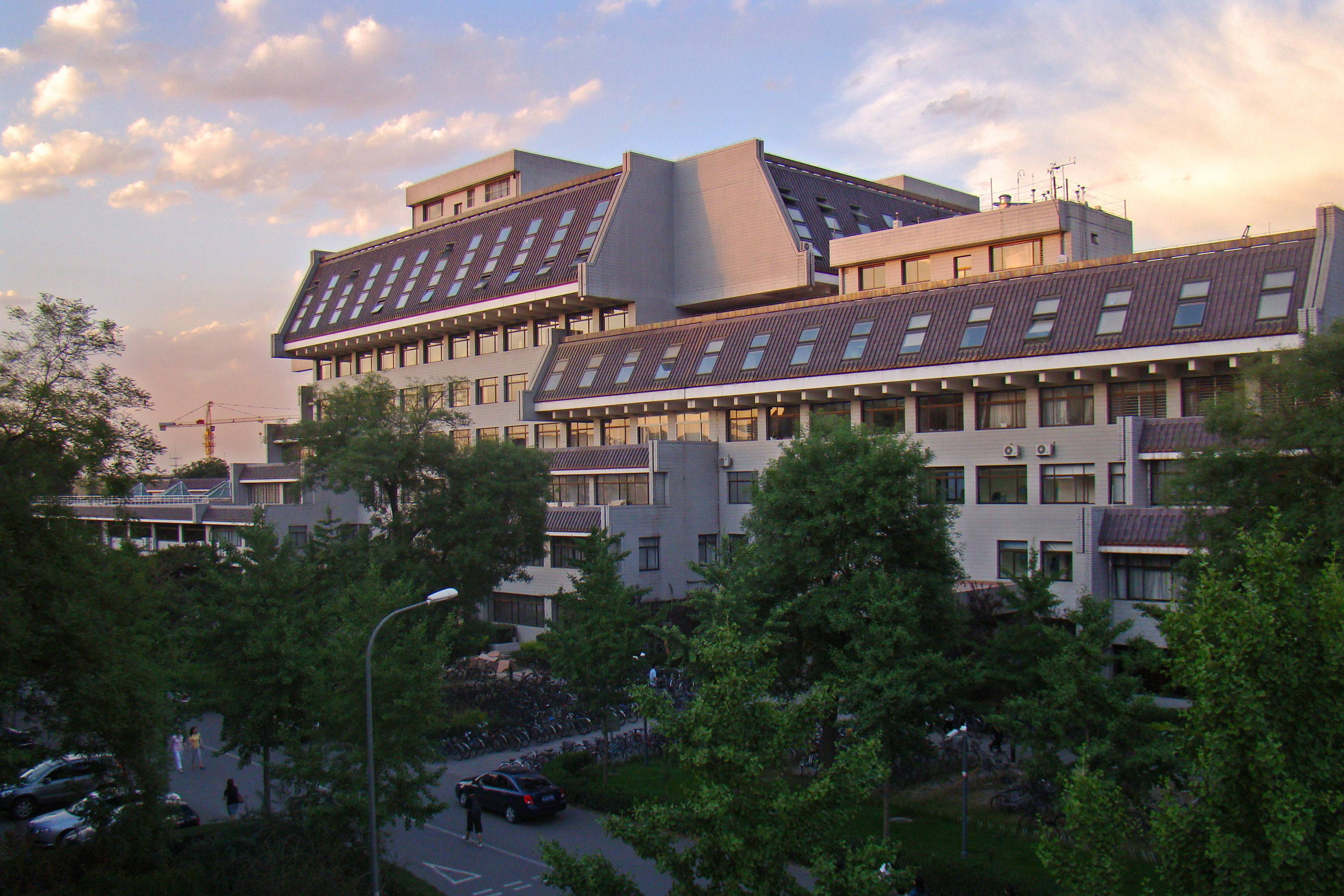 Computer Science in Peking University, Beijing. June, 2009 中文（中国大陆）: 2009年的北大理教。